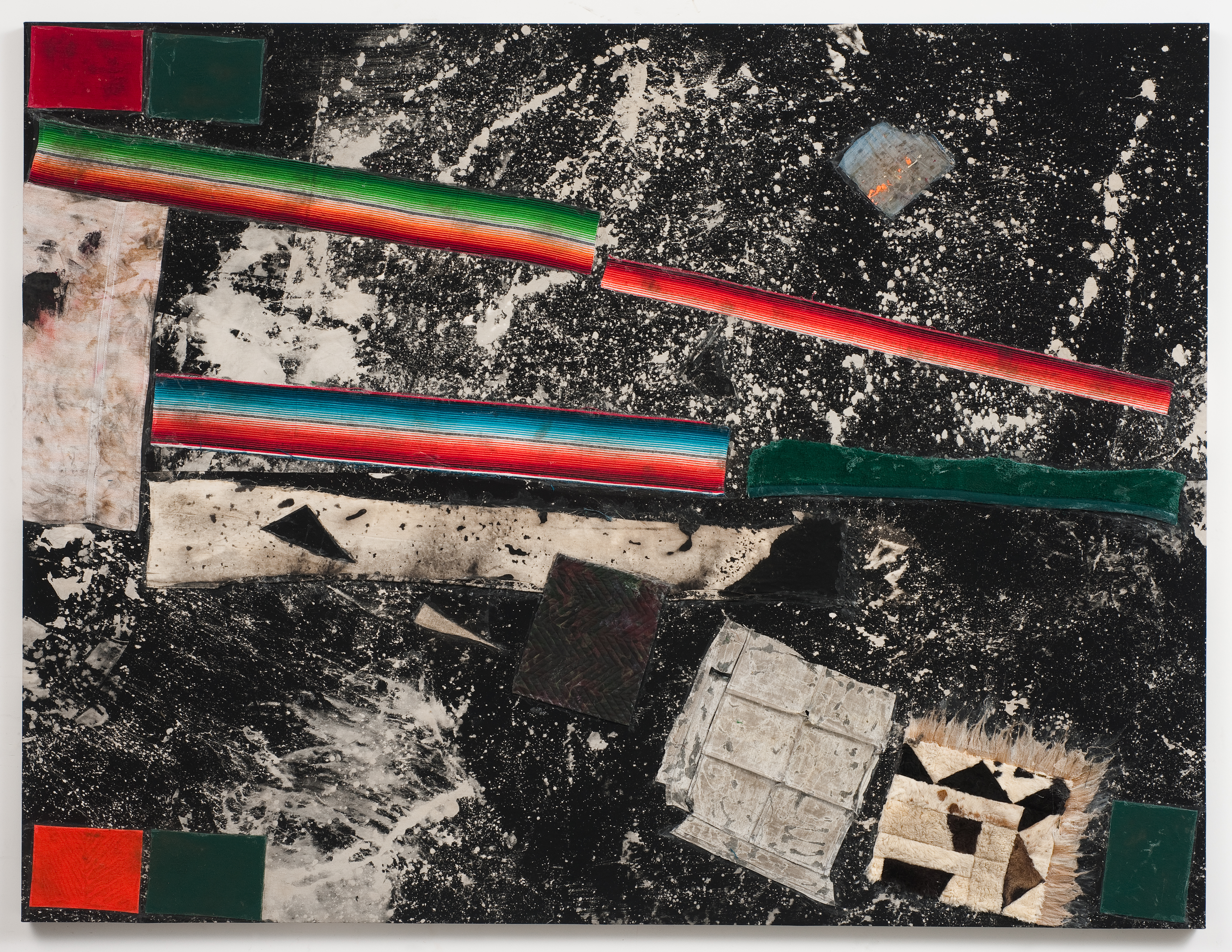 Image of artwork, BC3549, by artist Sterling Ruby.